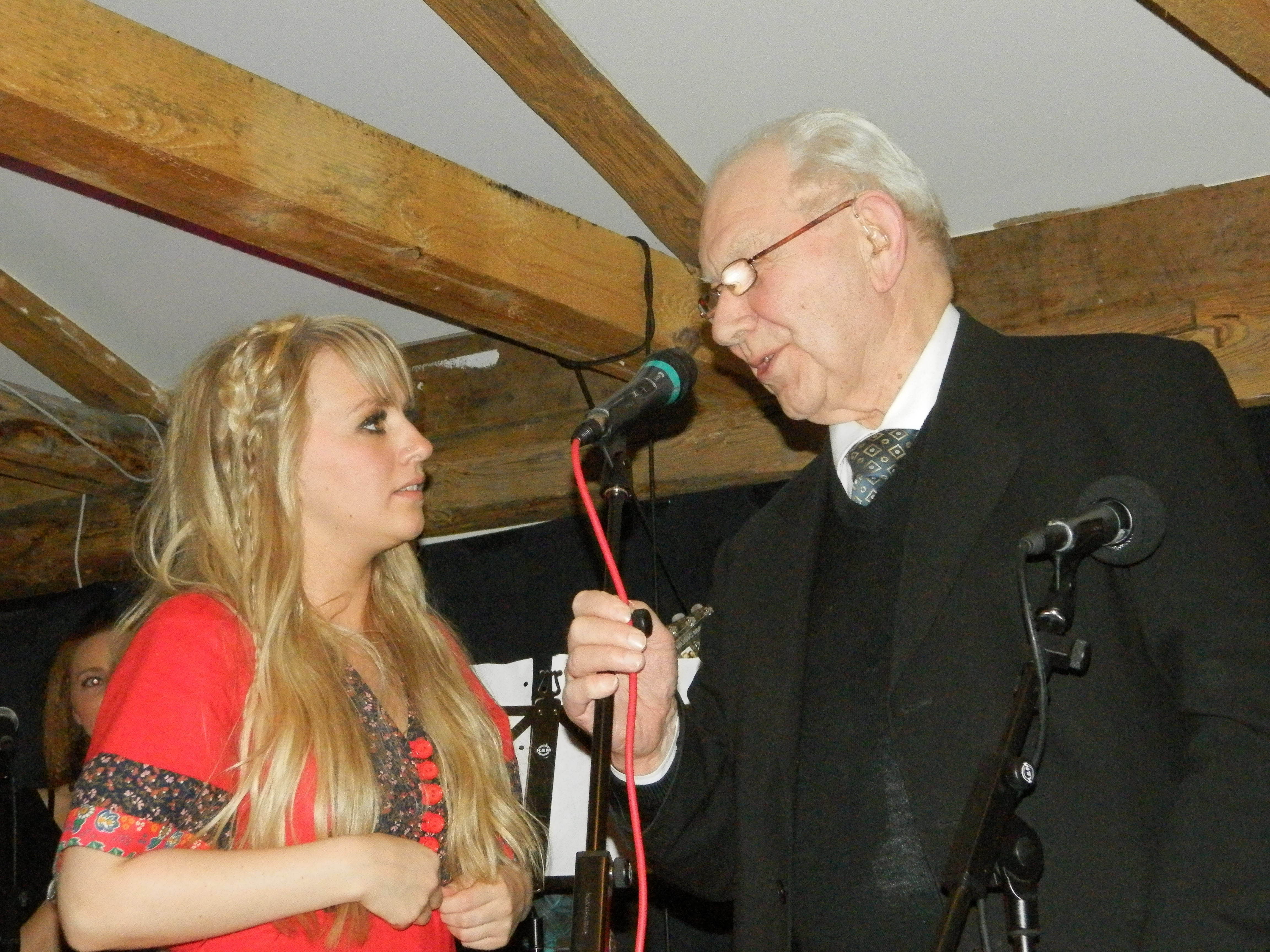 Lív Næs is a Faroese singer-songwriter and composer. In 2012 she released her first solo album with the title Keldufar, which was based on a collection of poems by her grandfather, Johannes Andreas Næs, who at that time was 92 years old. He is standing to the right on this photo, which was taken on 15 Februar 2013 at her concert, promoting her new album. Johannes Andreas Næs read one of his poems from Keldufar and explained about the title and about one of the poems. The concert was held at the Sail Loft (Seglloftið) in Tvøroyri. Føroyskt: Lív Næs, sangari, sangskrivari og tónasmiður saman við abba hennara, Johannes Andreas Næs av Nesi í Hvalba. Myndin er tikin til útgávukonsertina, sum Lív hevði á Seglloftinum á Tvøroyri saman við tónleikarum. Tróndur Enni og Niels Midjord framførdu eisini saman við henni, umframt fleiri dugnaligir tónleikarar. Johannes Andreas Næs las upp yrking úr Keldufar. Fløgan sum Lív gav út fekk heitið Keldufar og innihelt sangir, sum hon og onnur høvdu gjørt løg til eftir yrkingum hjá abba hennara.